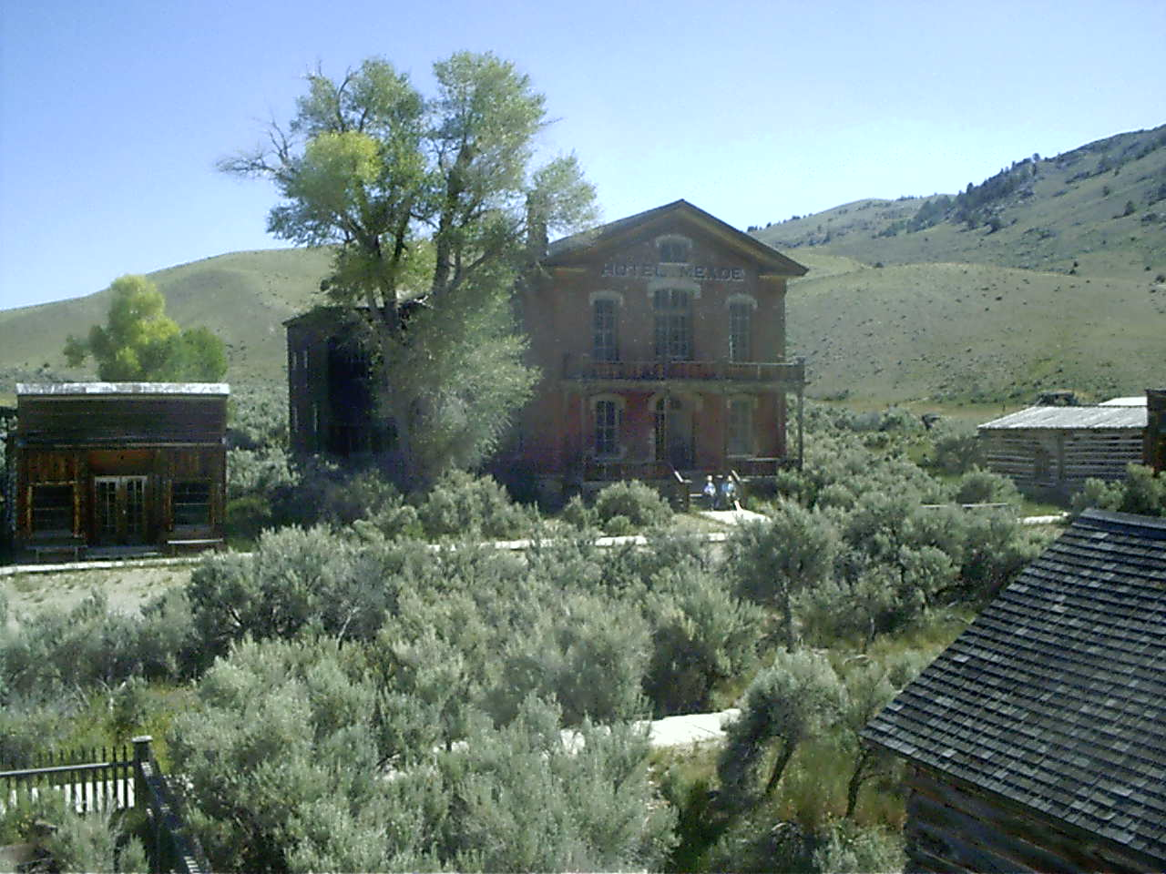 Bannack, Montana, USA. A well preserved ghost town that is now a State Park.